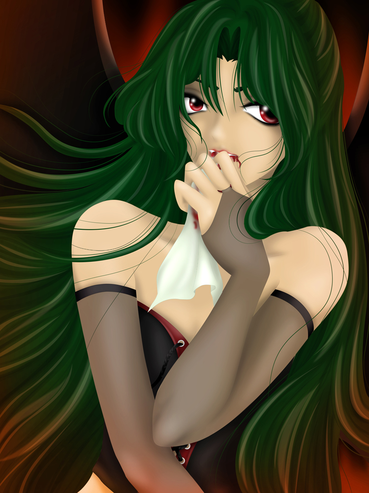 Demons and gods are popular Japanese cartoon characters